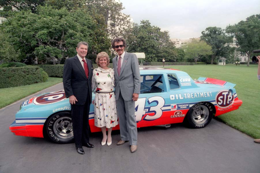 President Reagan posing with race car driver Richard Petty and his wife Lynda in front of Petty's car at the White House. 6/27/85.